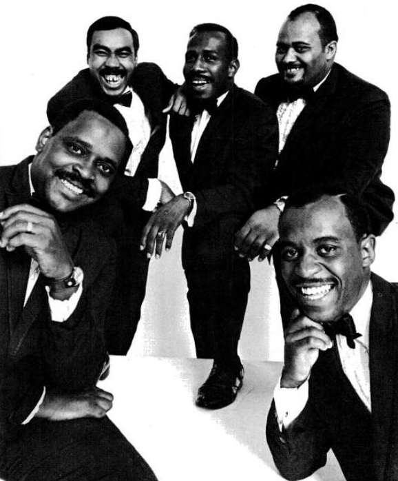 Trade ad for The Tymes's single "If You Love Me Baby". To better adapt it to his respective Wikipedia article, the ad was cropped and cleaned in a graphics editing program. The original can be viewed at the source below.